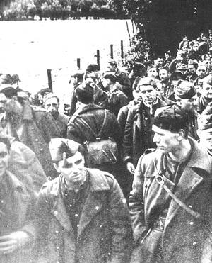 Dunkirk, captured British and French troops